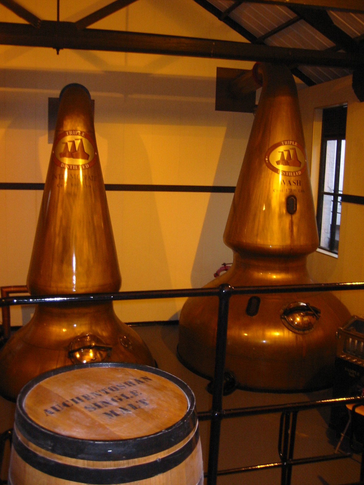 First two distillation steps in the distillery of Auchentoshan, a triple-distilled, single malt, lowland Scotch whisky. The copper stills are indicated as wash still and intermediate still. taken by User:Nicor